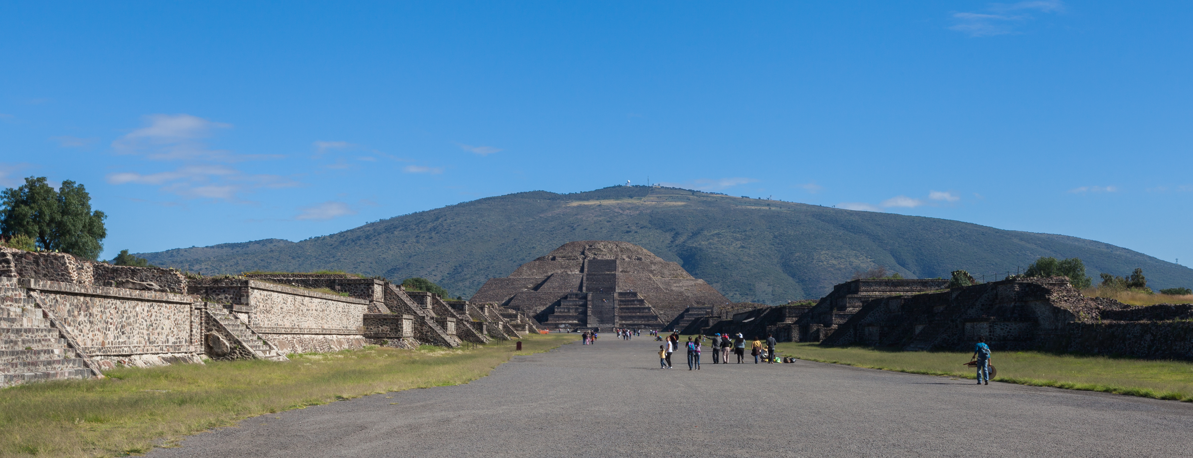 The Pyramid of the Moon in Teotihuacan, México